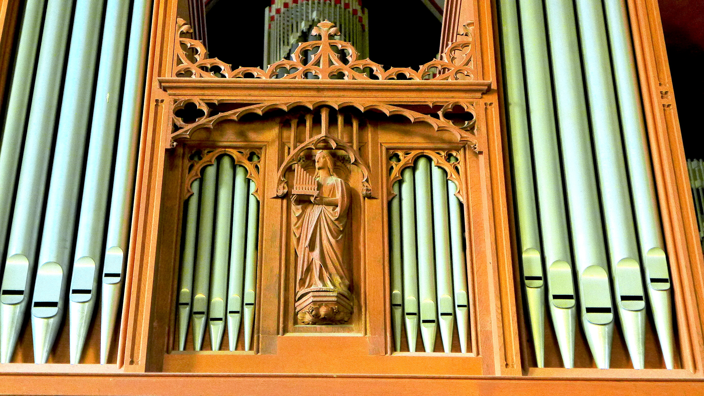 Church of the Holy Apostle James Sebedee in the city of Hilden, Germany.